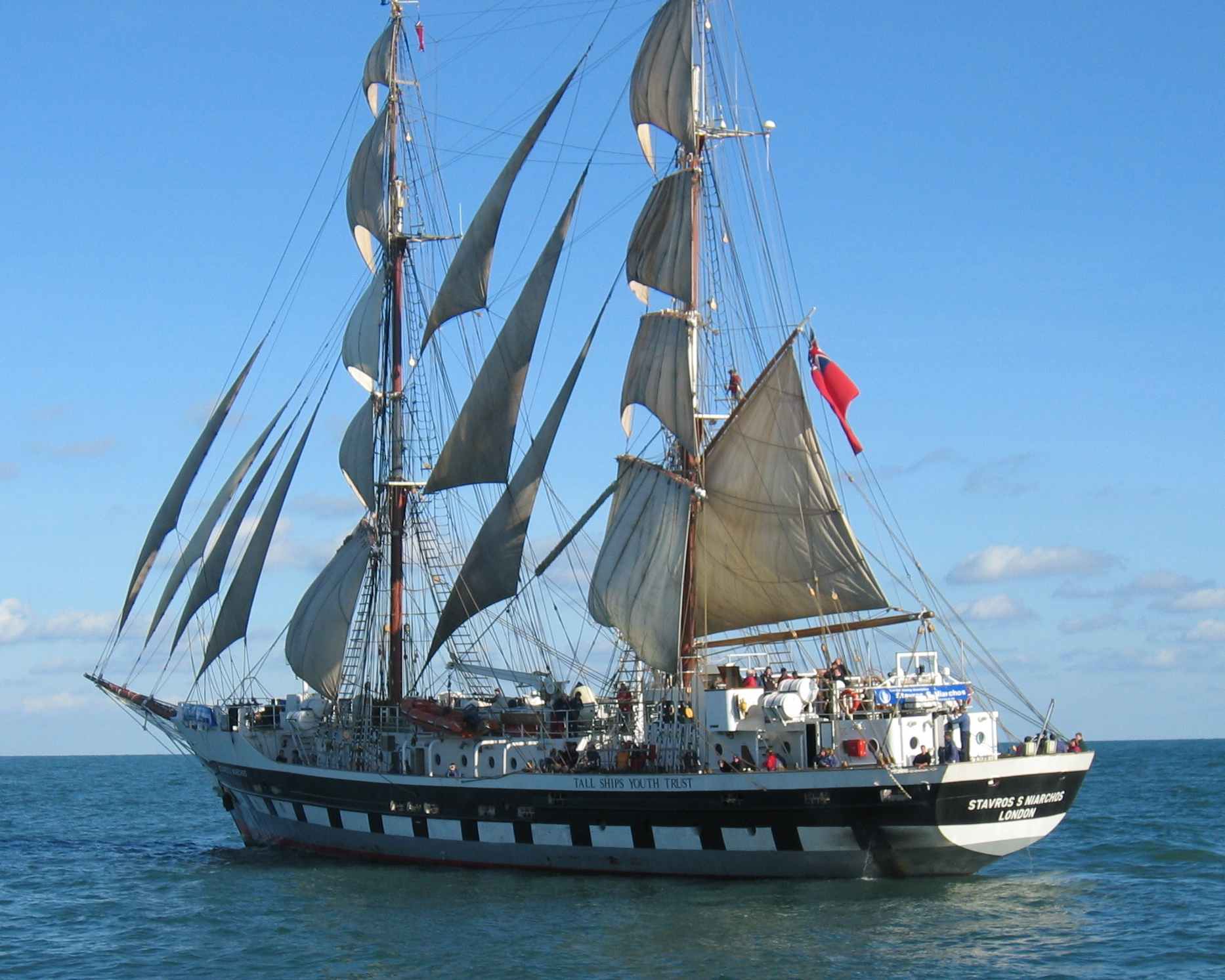 Photograph taken by Bruce Davidson, 27 October 2003 off the Isle of Wight during the 2003 Brig Match Race. IMO Number: 9222314 MMSI Number: 232007330 Callsign: MZIU7 Length: 59 m Beam: 10 m